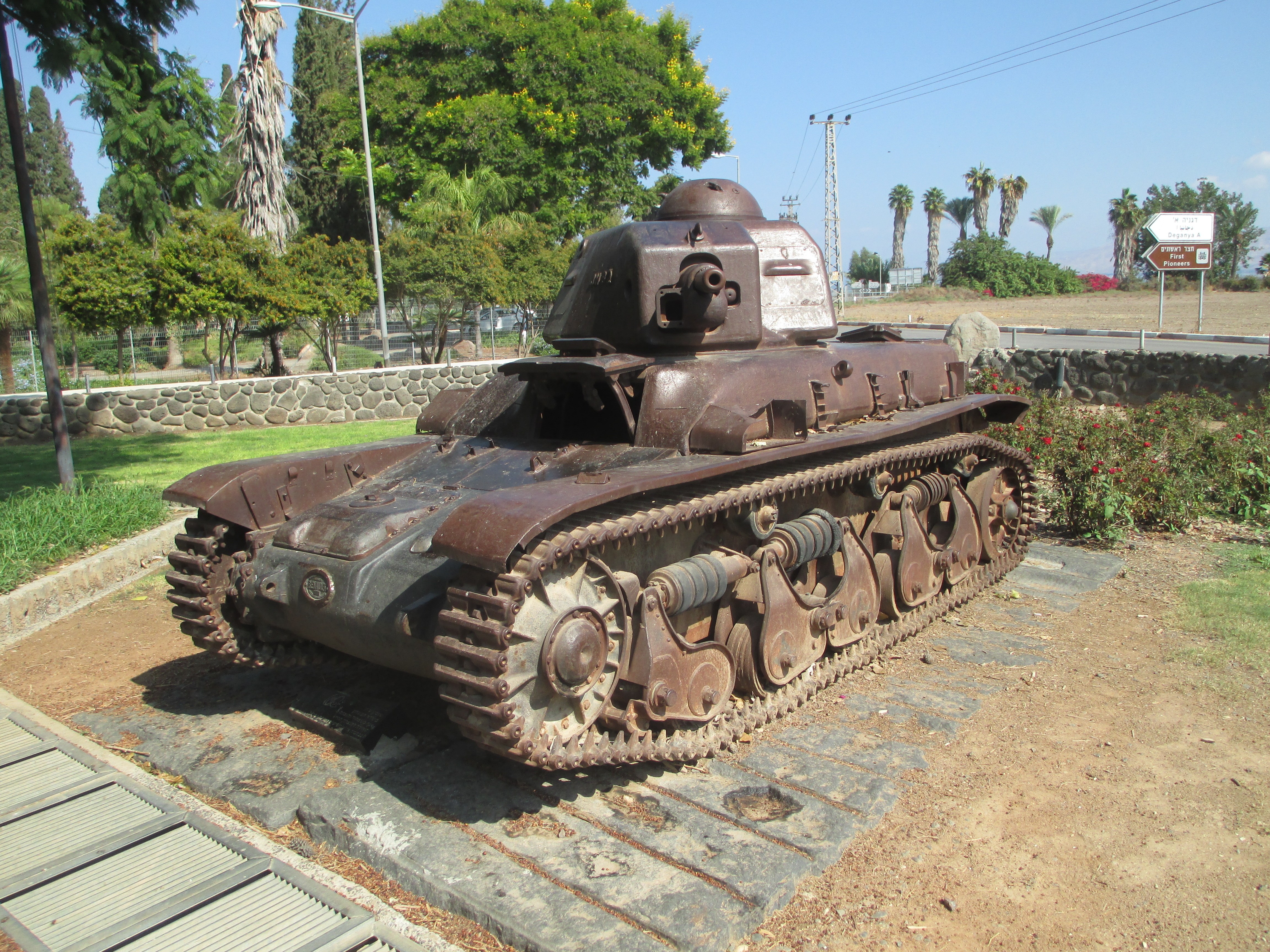 Syrian tank in Kibbutz Dgania